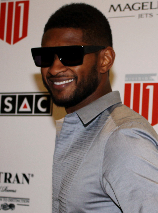 Usher Raymond at the Division 1 Launch Party 2010.